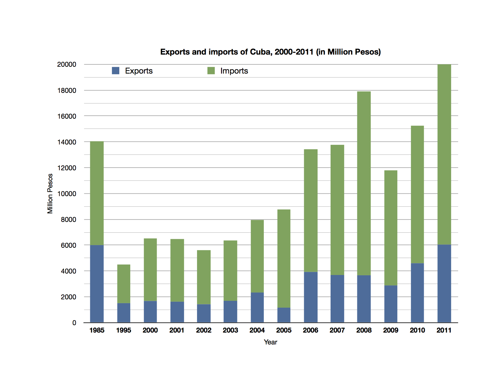 Exports and imports of Cuba, 2000-2011. Source: ONE and ONE 2012.